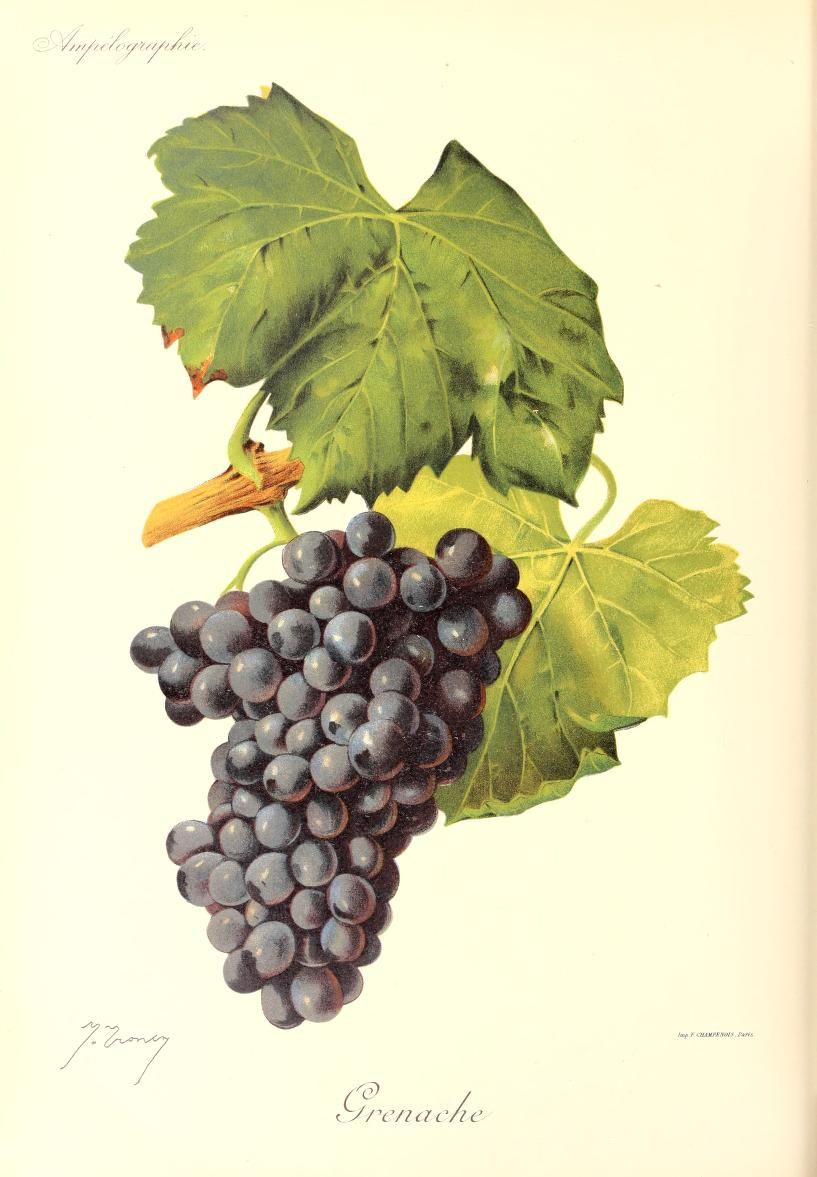 Variety grenache N